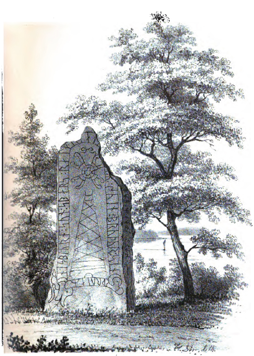 The runestone Sö 151. The inscription reads §A nesbiurn : sun : sbars : raiþi : --ai- ...-R : suin : bruþur : sin : þrutaR : ¶ þikn iunu unut nit * nb st ai : §B stan : iftiR : sui.... In English "§A Nesbjôrn, Sparr's son, raised the stone in memory of Sveinn, his brother, a Þegn of stregth. §B ... §C the stone in memory of Sveinn."